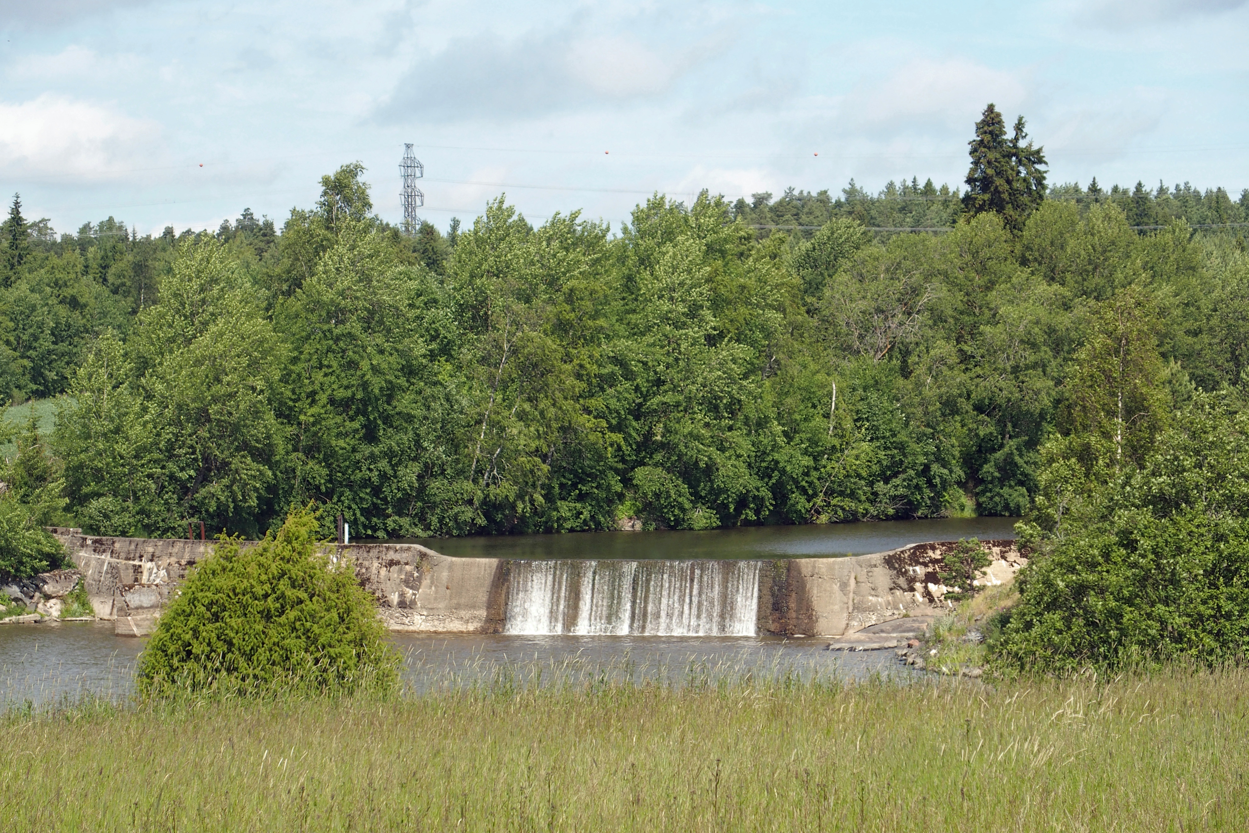 Hintsa dam in Raisio river